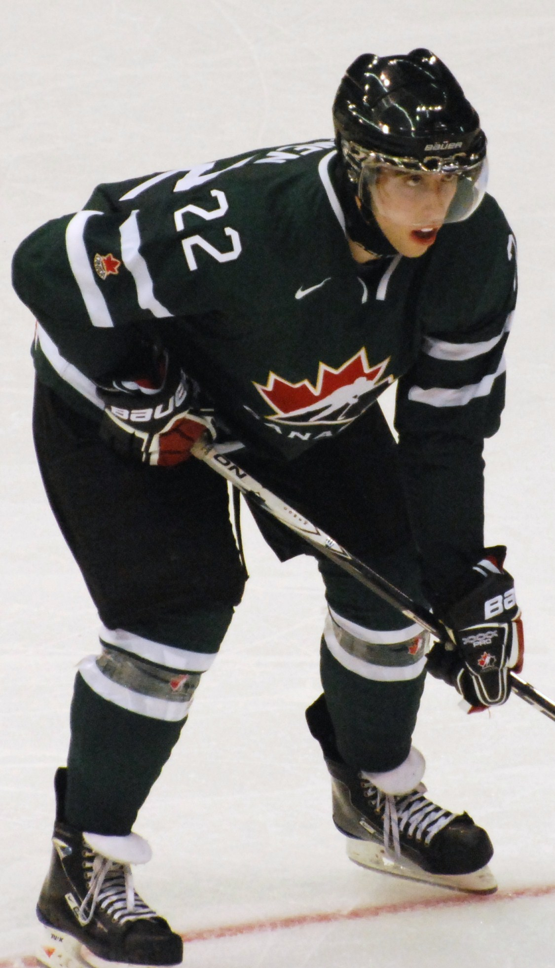 Jared Cowen during pre-competition play at the 2010 World Junior Ice Hockey Championships.